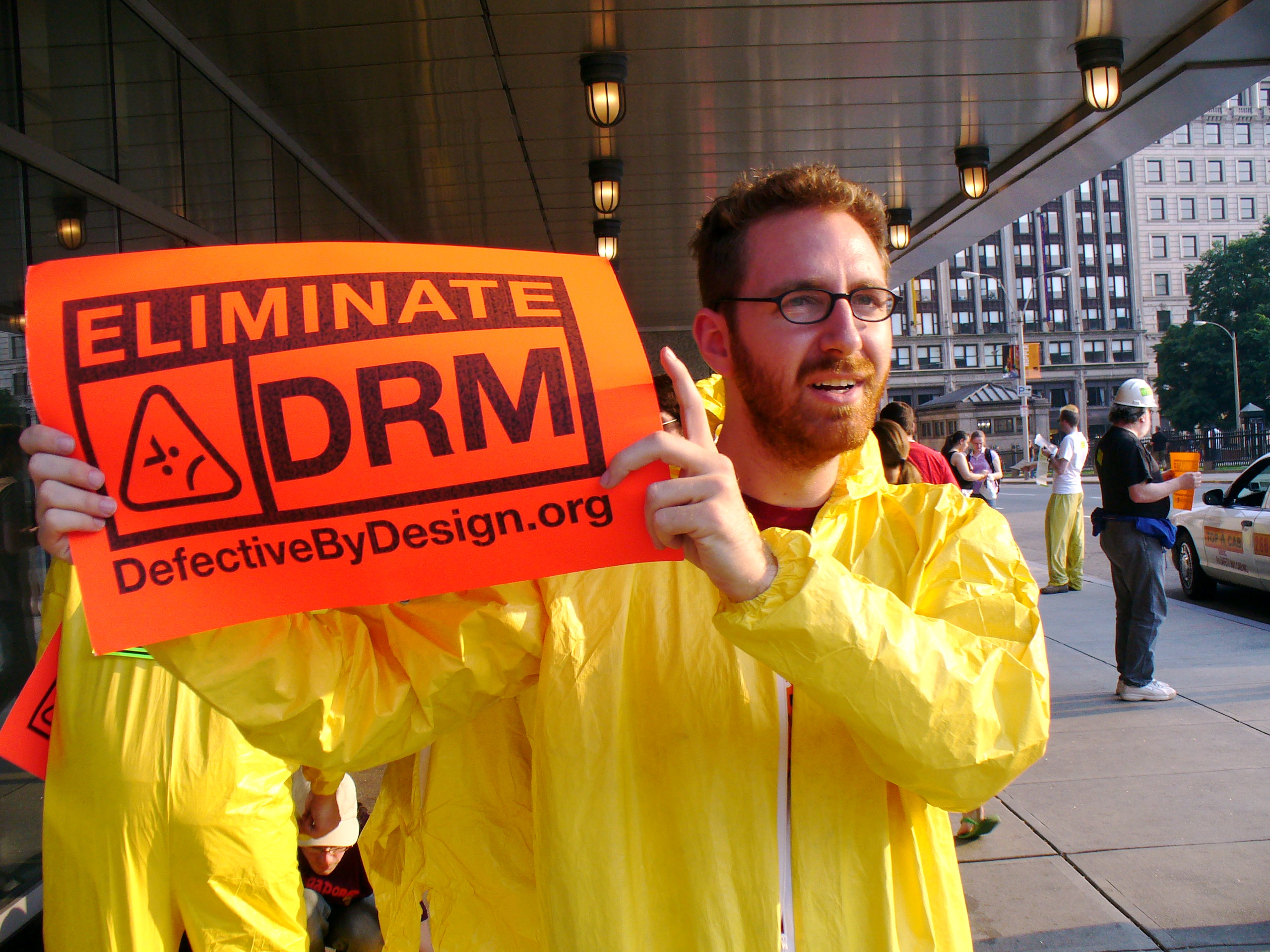 A man protests Digital Rights Management in Boston, USA as part of the campaign of the Free Software Foundation.